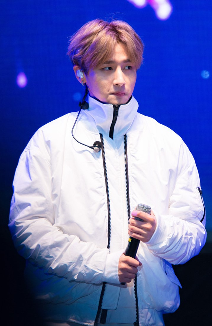 I.M at Old School Public Broadcasting on October 9, 2016.